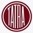 Logo of Tatra AS, Note: for use for Tatra Automotive Enthusiasts use on Wiki Projects such as user boxes